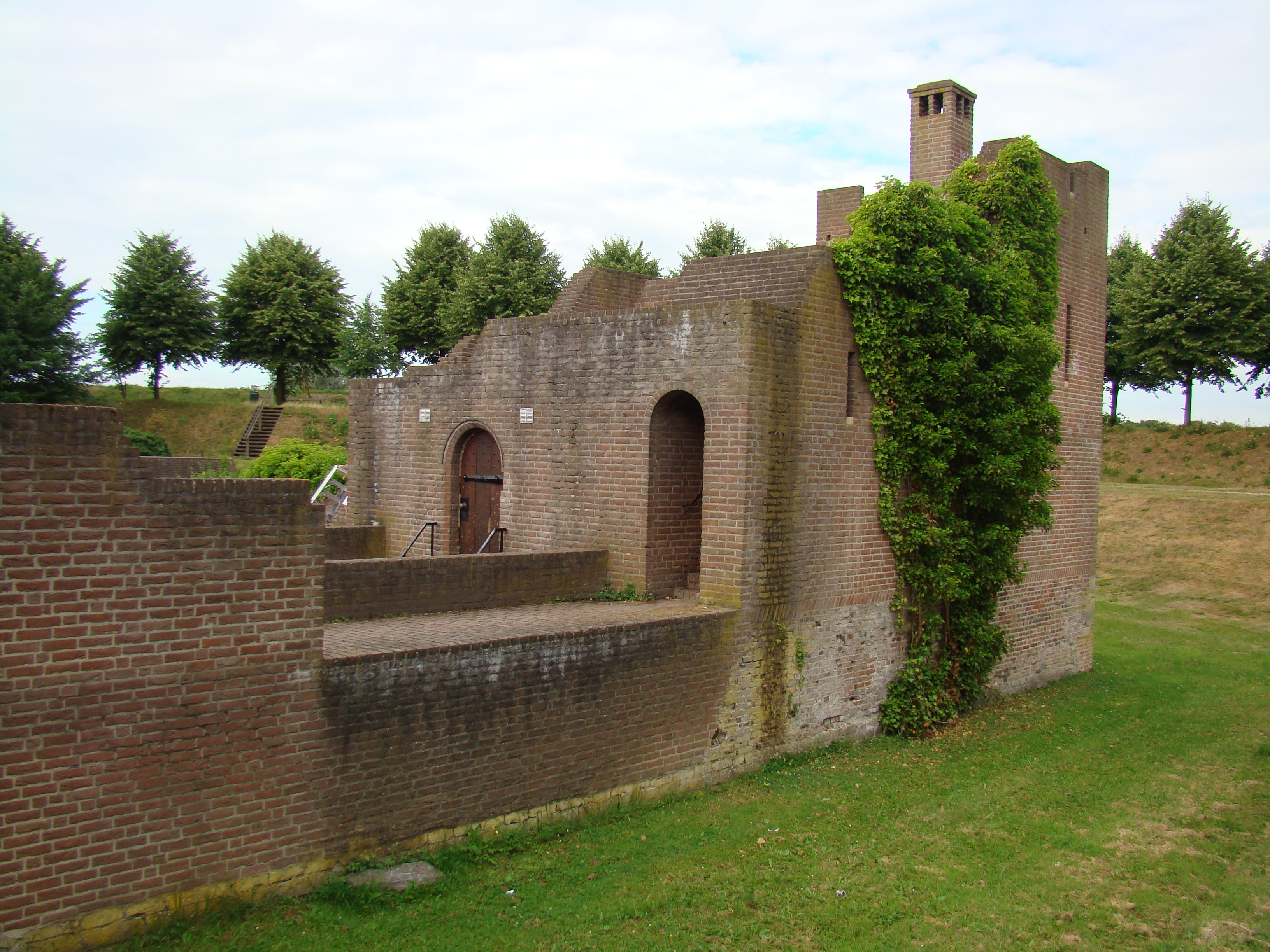 Castle Heusden, Netherlands